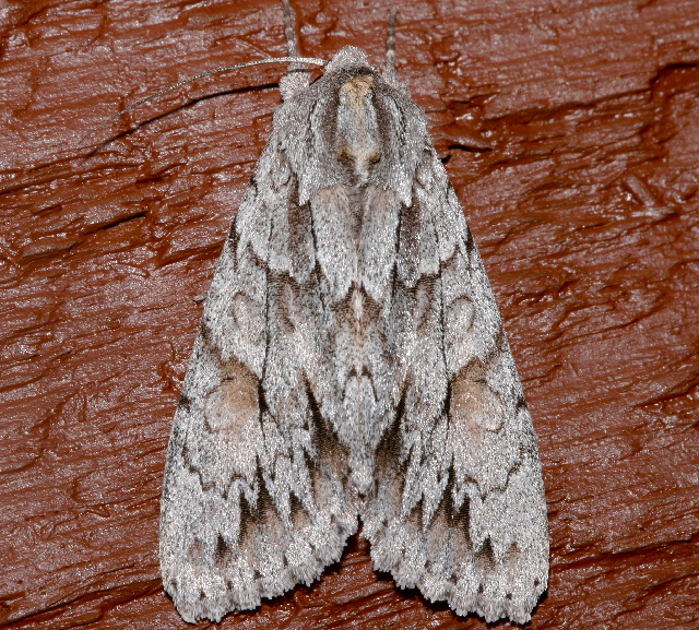 Andropolia theodori, Port Alberni, Vancouver Island, British Columbia, Canada